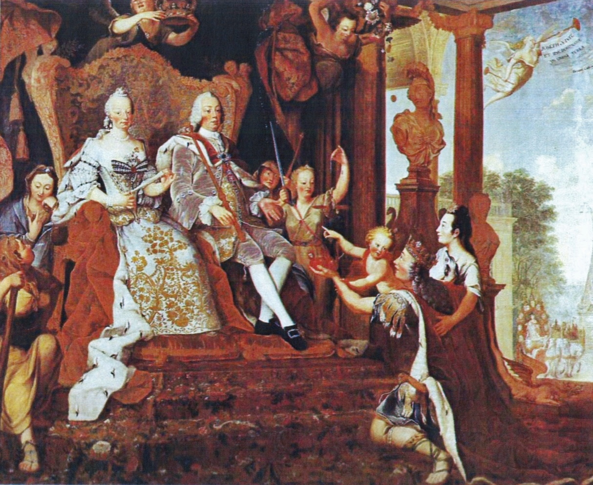 Allegory of the Acclamation of King Joseph I of Portugal (c. 1750), attributed to Joana do Salitre. At the Palace of Necessidades.